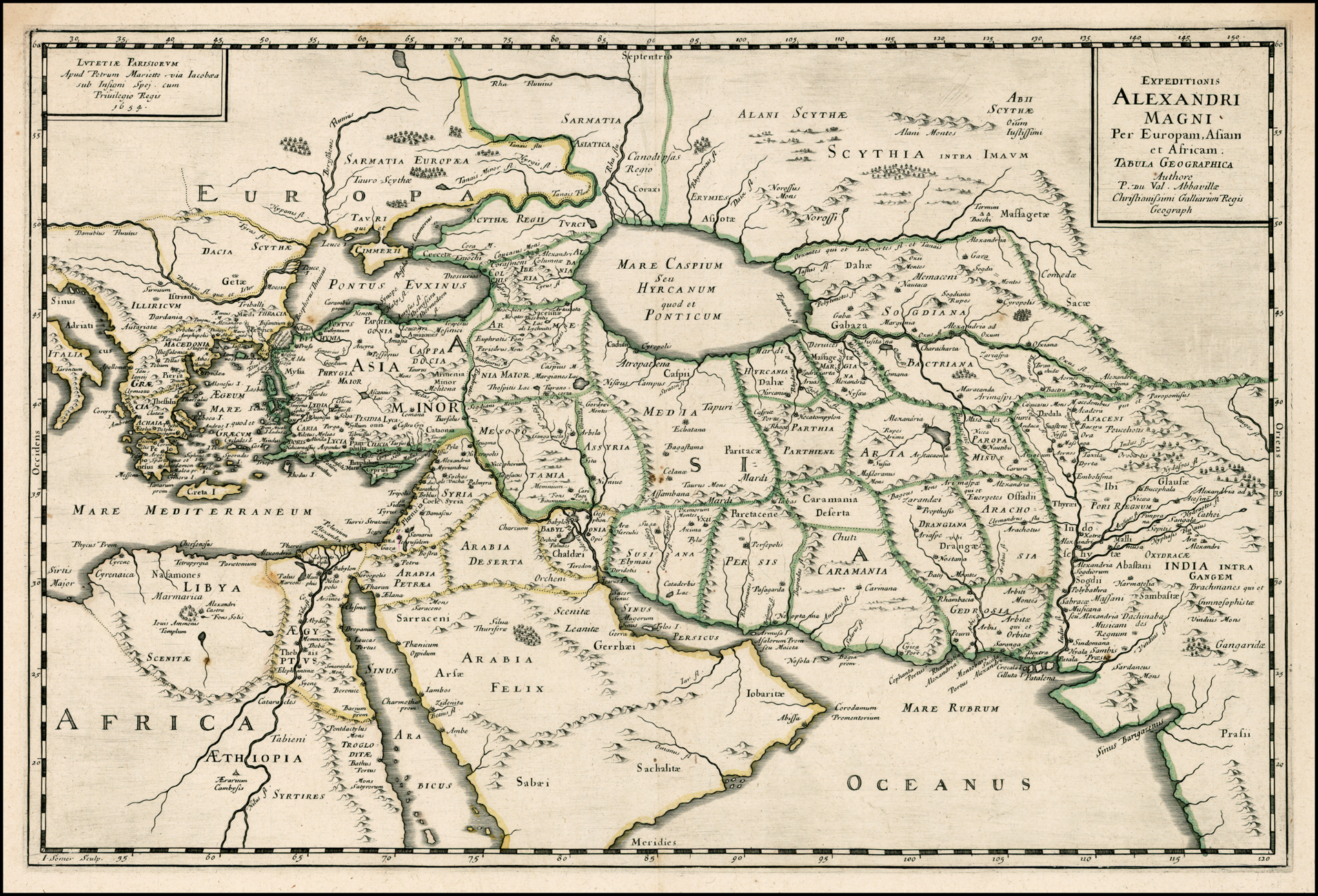 Pierre Du Val: Expeditionis Alexandri Magni Per Europam, Asiam et Africam . . . 1654 Detailed map of the region bounded by the Eastern Mediterranean in the West and India in th east, centered on the Arabian Peninsula, Persia and Iraq.